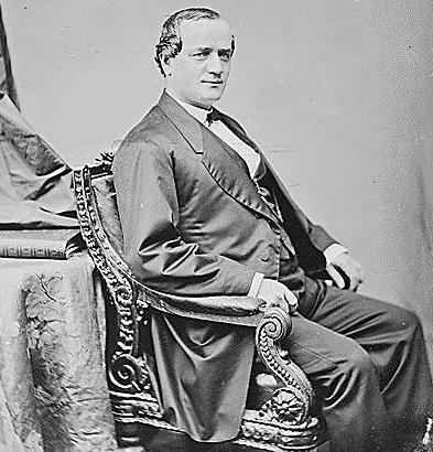 William Milnes, US Representative from Virginia